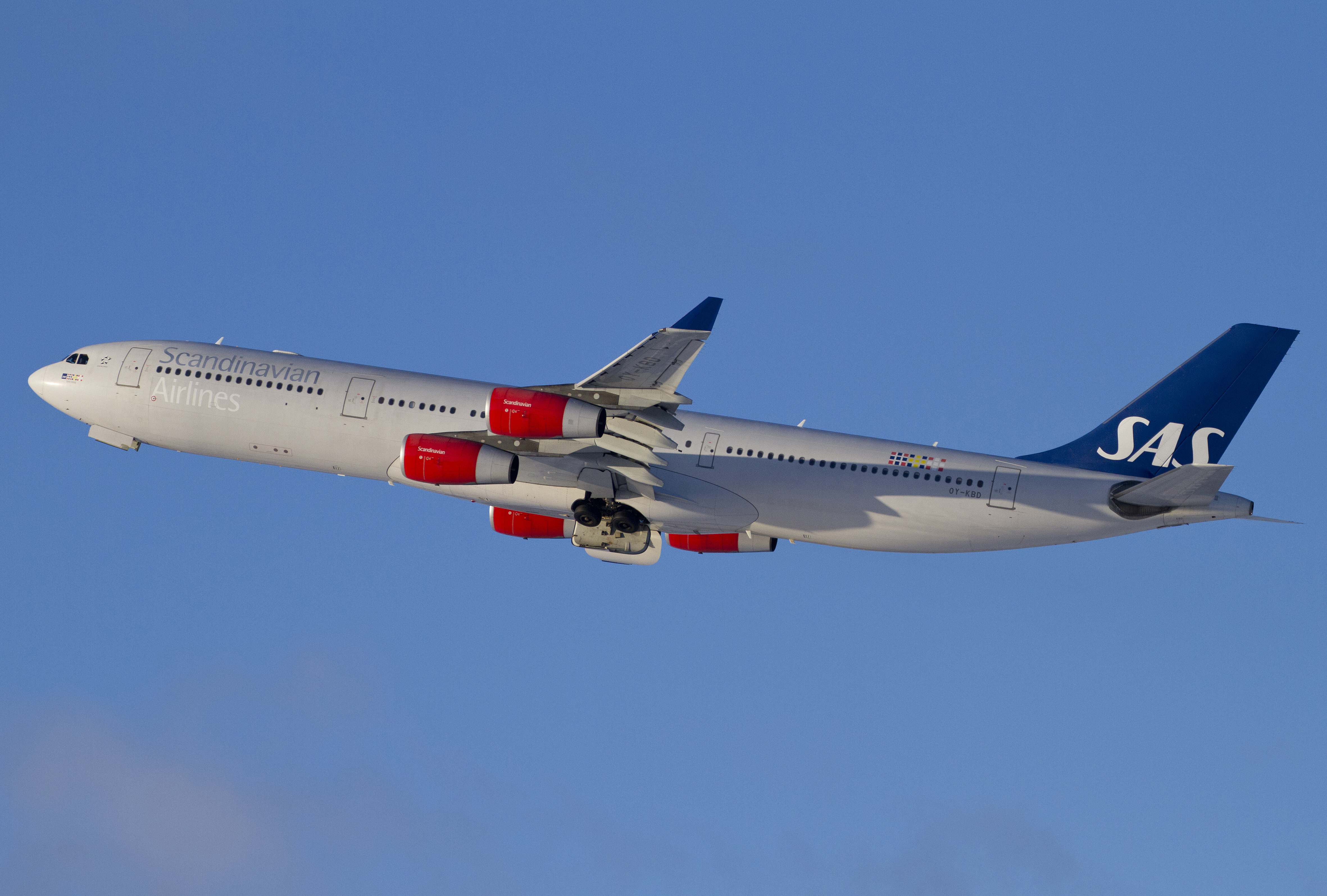 SAS Airbus A340 departing Stockholm.